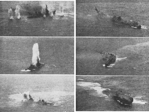 Six photographs taken by U.S. Navy squadron VU-7 showing the sinking of the heavy cruiser USS Salt Lake City (CA-25) as a target ship on 25 May 1948, 240 km (130 mi) off the coast of Southern California (USA). The old cruiser was first machine-gunned by aircraft and targeted with HVAR rockets. Then 15 cruisers and destroyers fired 12.7 cm, 15.5 cm, and 20.3 cm (5 in, 6 in, 8 in) shells. Finally Navy and Marine air groups dropped 105 100 lb-bombs on the ship before it was sunk by torpedoes.